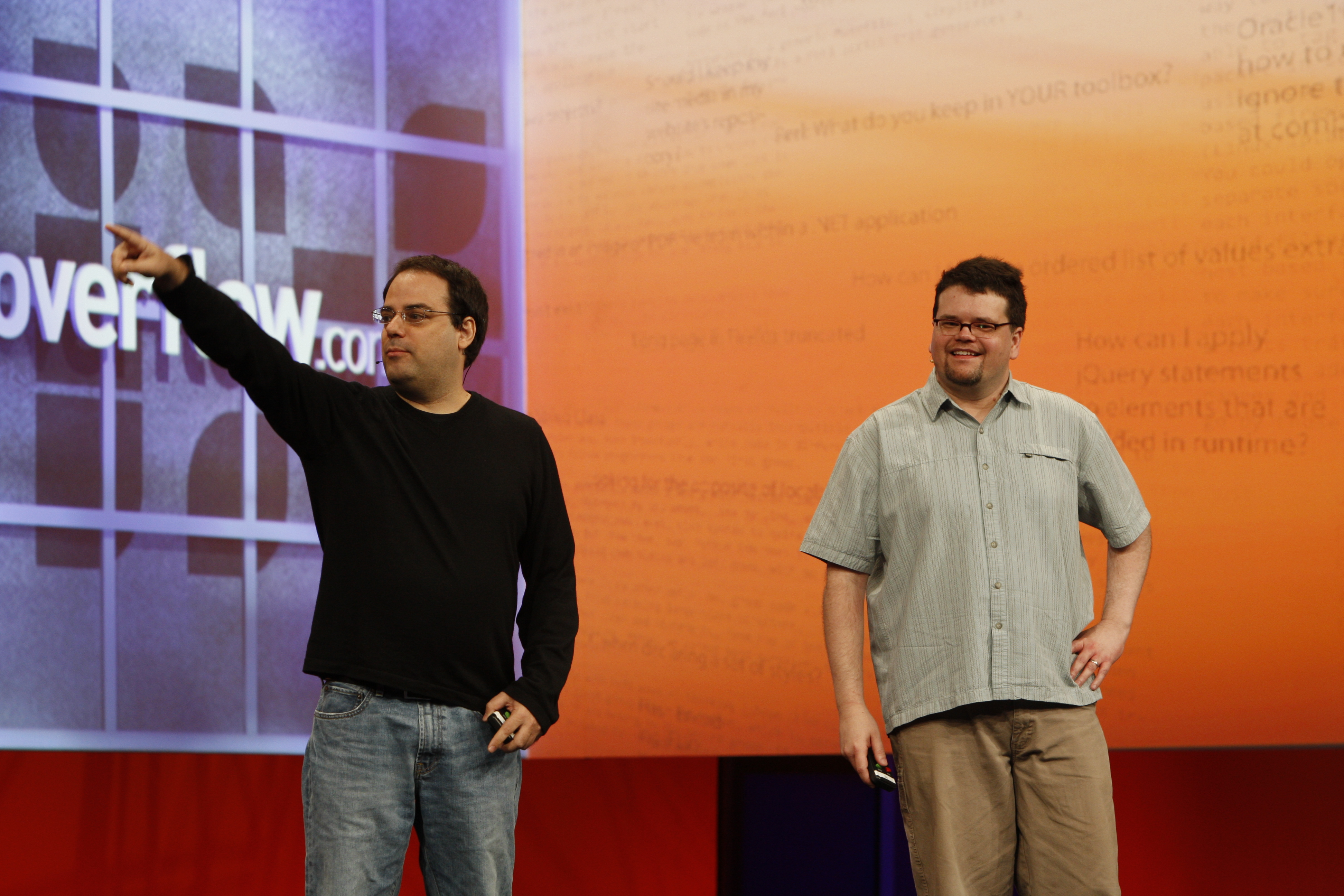 Joel Spolsky and Jeff Atwood present at MIX09